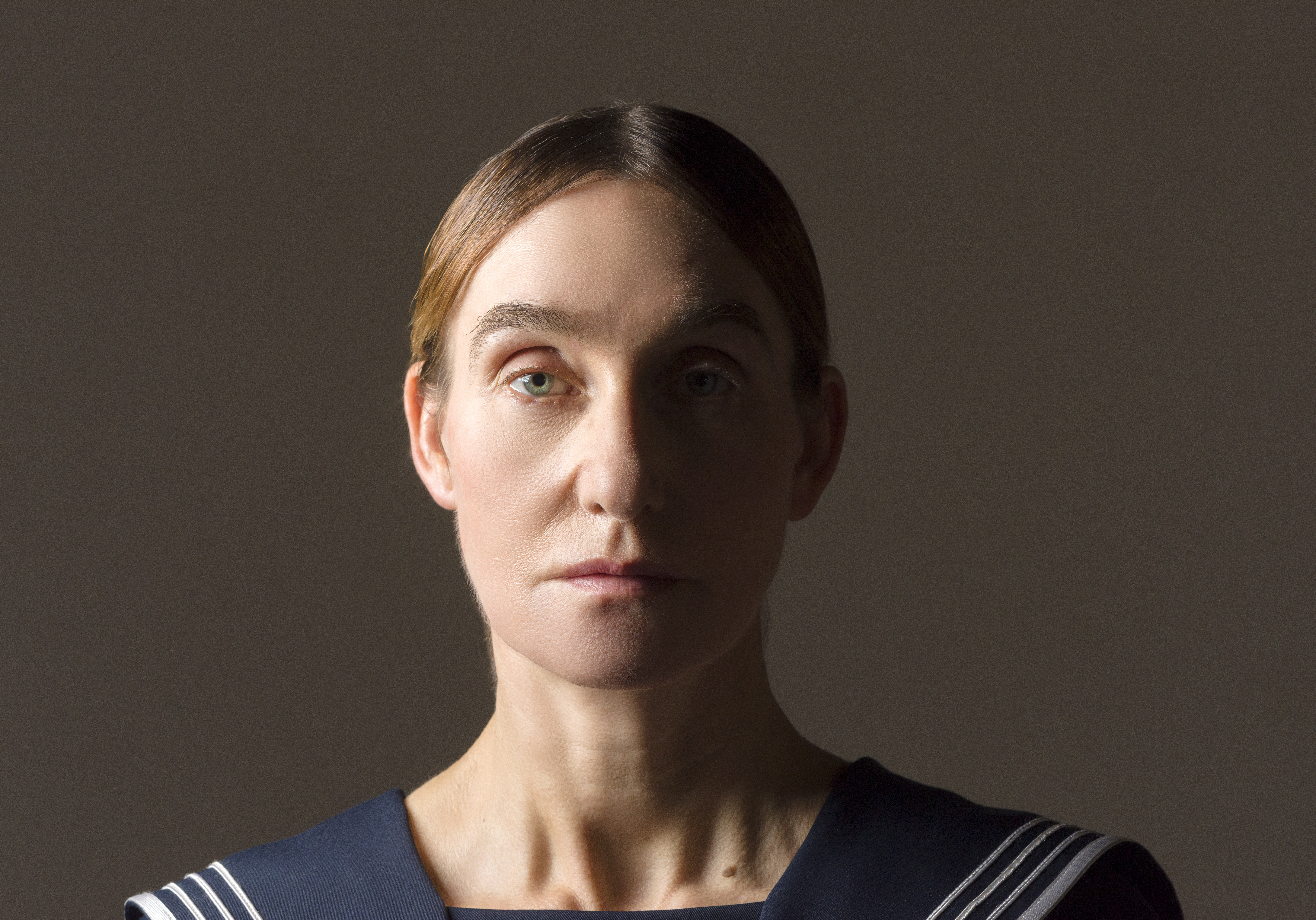 Portrayal of Mika'Ela Fisher